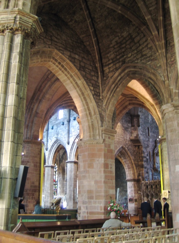 St Giles' Cathedral in Edinburgh